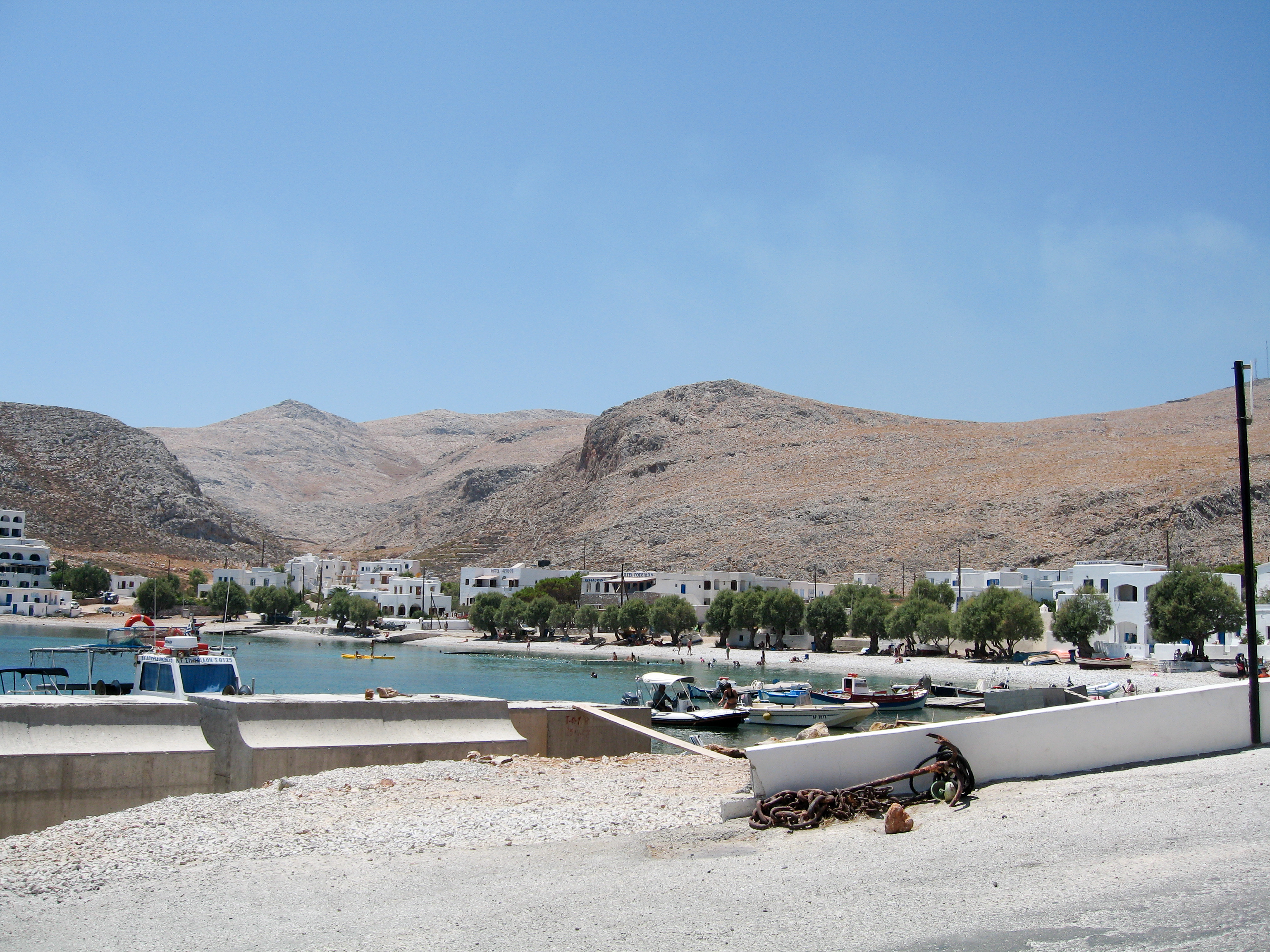 Folegandros Island, Greece